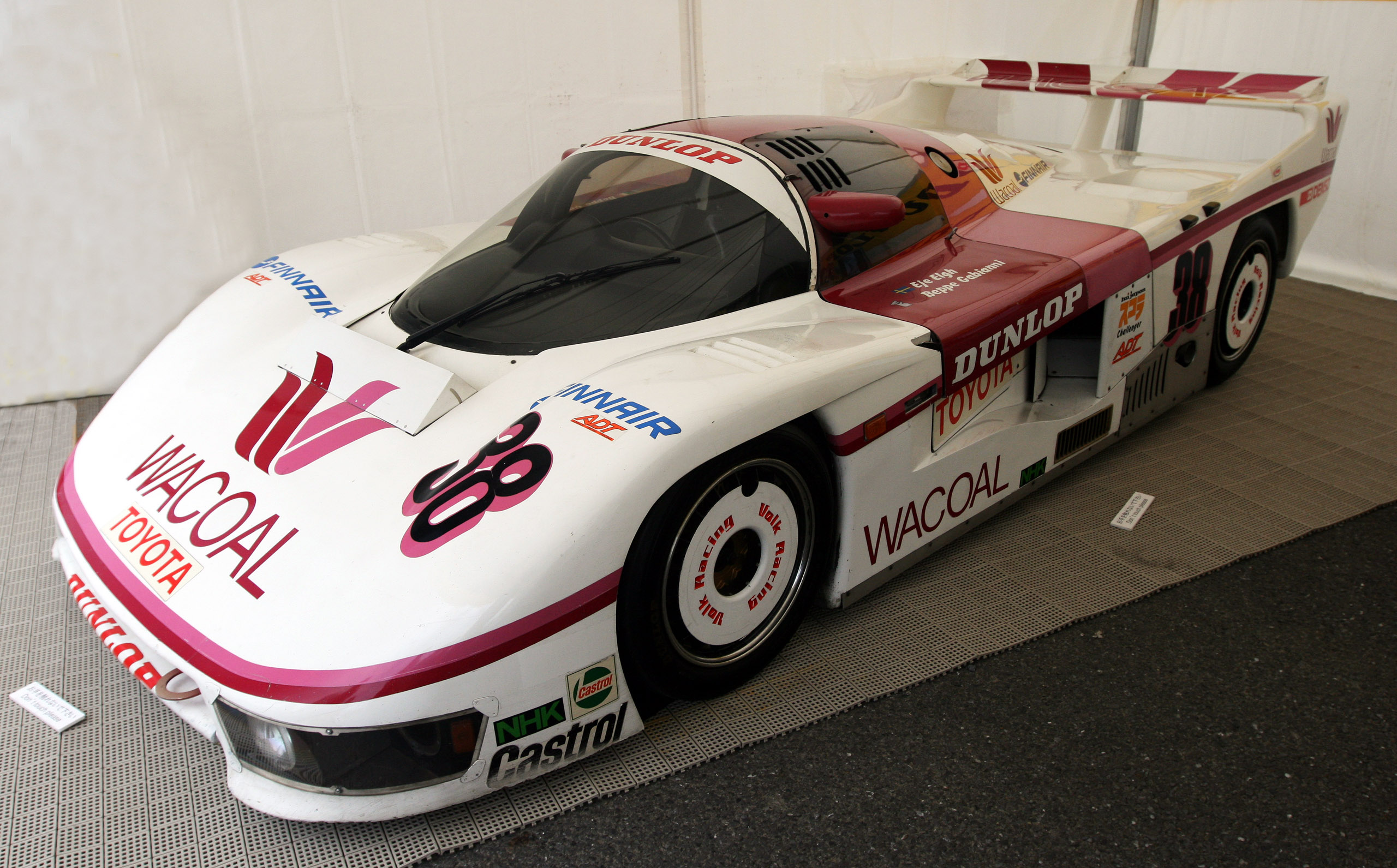 Motorsport Japan 2008: the Toyota-Dome 85C (Dome 85C-L)